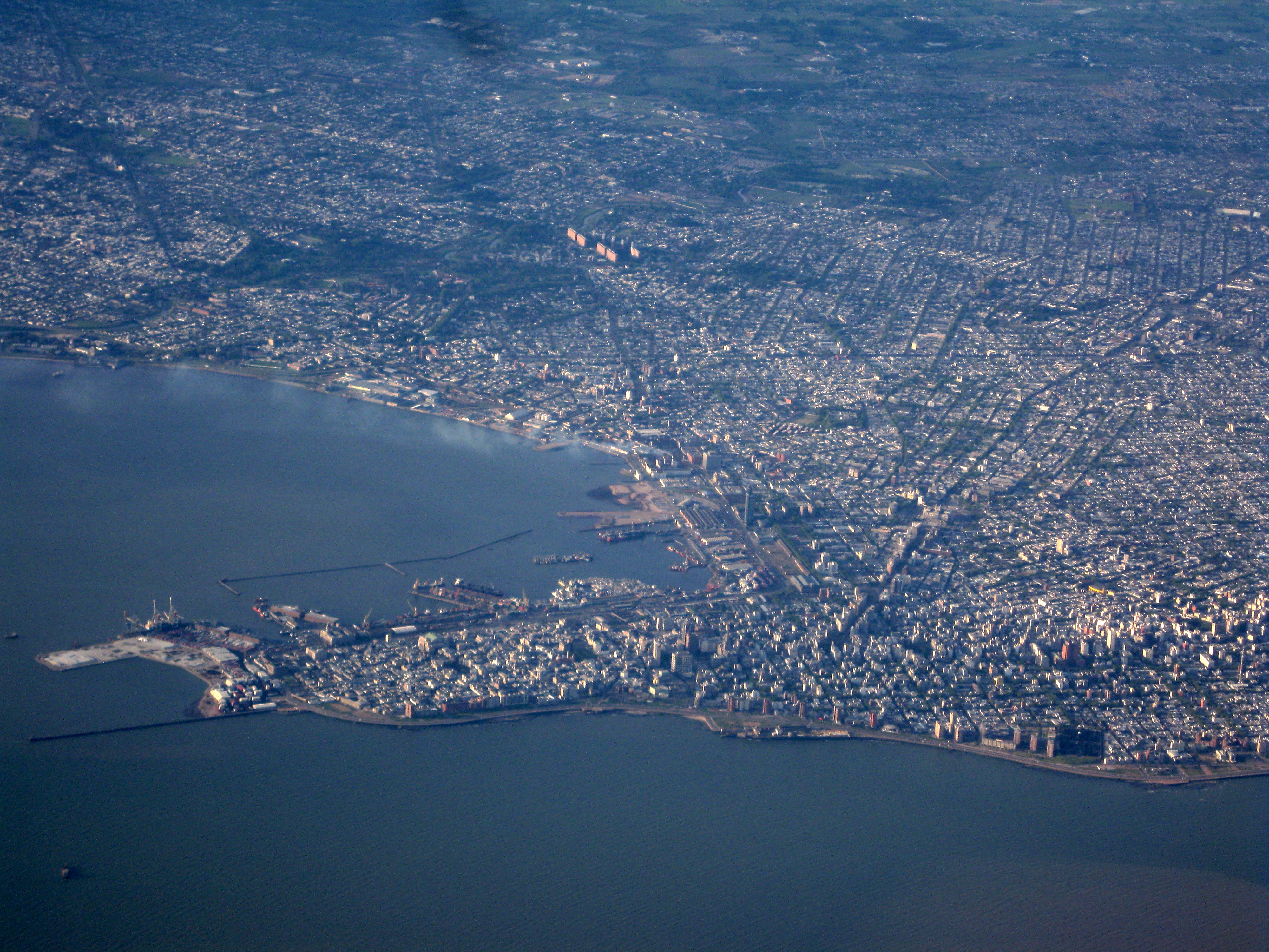 Montevideo